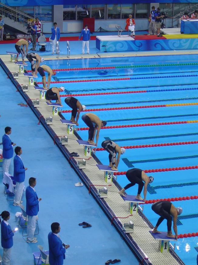 The swimming competition (heat 4) of the men's Modern pentathlon at the 2008 Summer Olympics in the Ying Tung Natatorium. From the left: Eli Bremer (9), John Zakrzewski (8), Cao Zhongrong (7), Nick Woodbridge (6), Amro El Geziry (5), Andrey Moiseyev (4), Jean Berrou (3), Eric Walther (2), and Ilia Frolov (1)